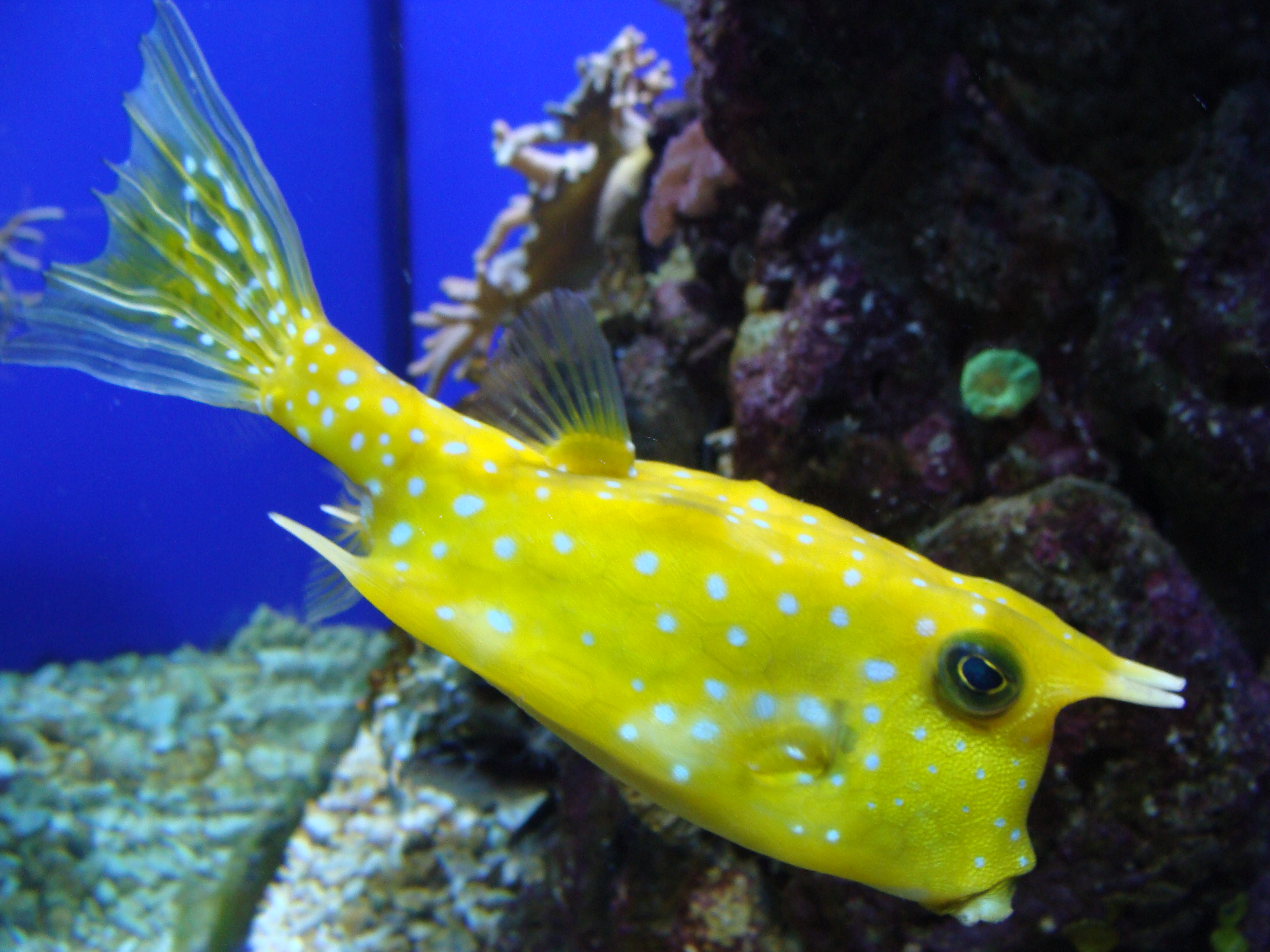 Lactoria cornuta (Longhorn cowfish) in Sala Humboldt of Aquarium Finisterrae (House of the Fishes), in Corunna, Galicia, Spain.